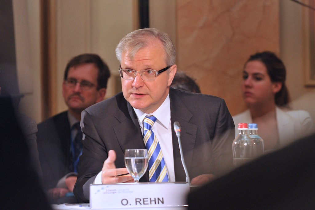 EU Economic and Monetary Affairs Commissioner